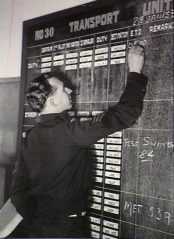 Iwakuni, Japan. The next days flying program for No. 30 Transport Unit is being chalked up on the board by Sergeant Climpson.